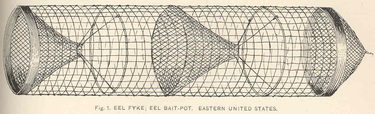 Eel Fyke; Eel Bait-Pot. Eastern United States Subject: Fishing nets Tag: Fisheries Techniques